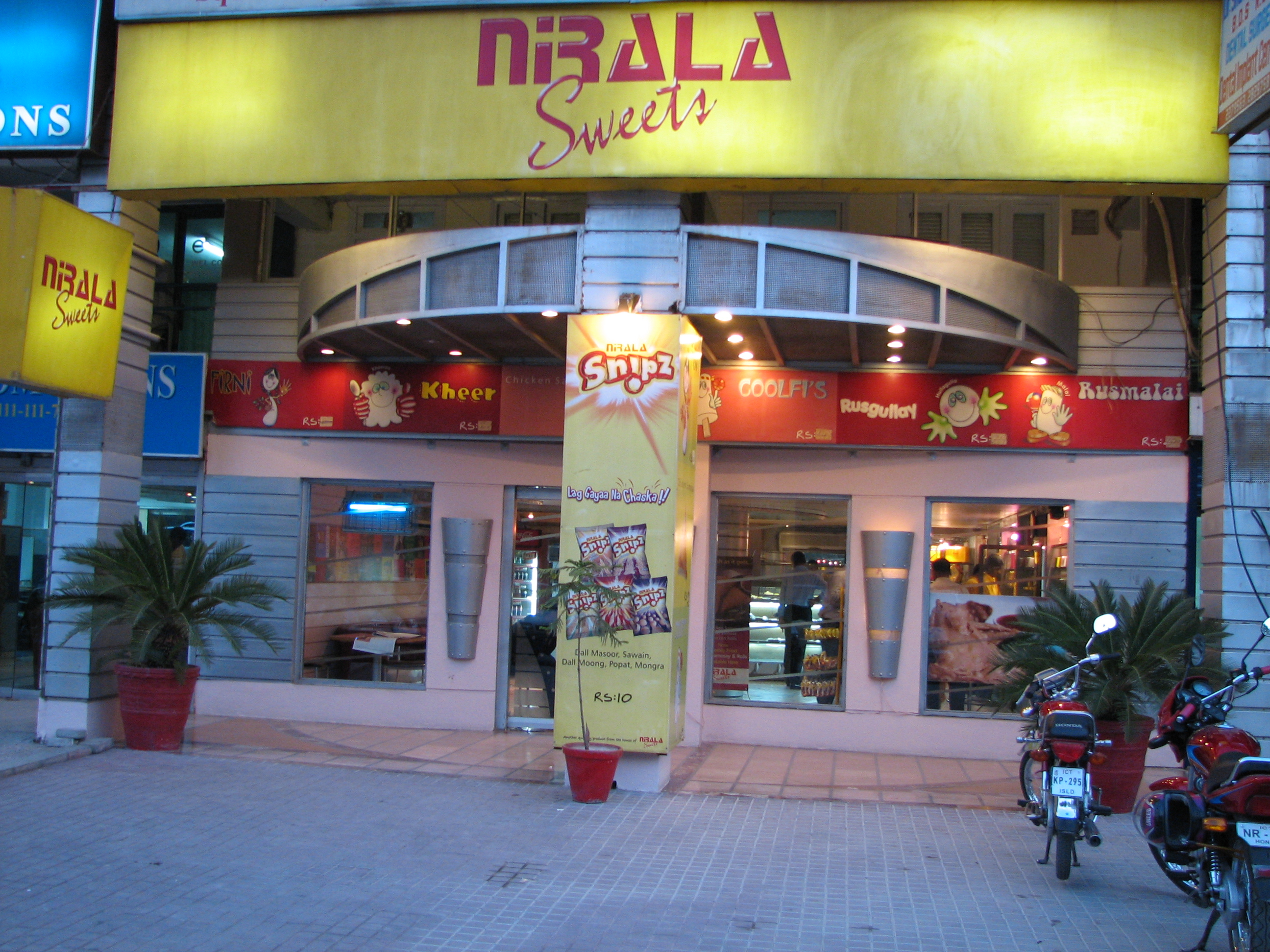 Nirala Sweets, shops that sell fresh baked cookies, cakes, locally made sweet treats (Mattai), chocolates, candies, drinks, and many other type of snacks.